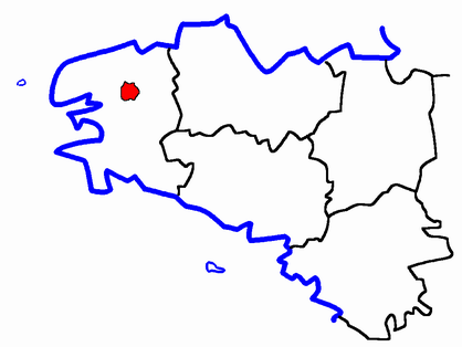 Description: Map for localisazion of cantons of Bretagne region in France Source: made by Hervé Tigier in april 2005 from another large map (published in 1990)